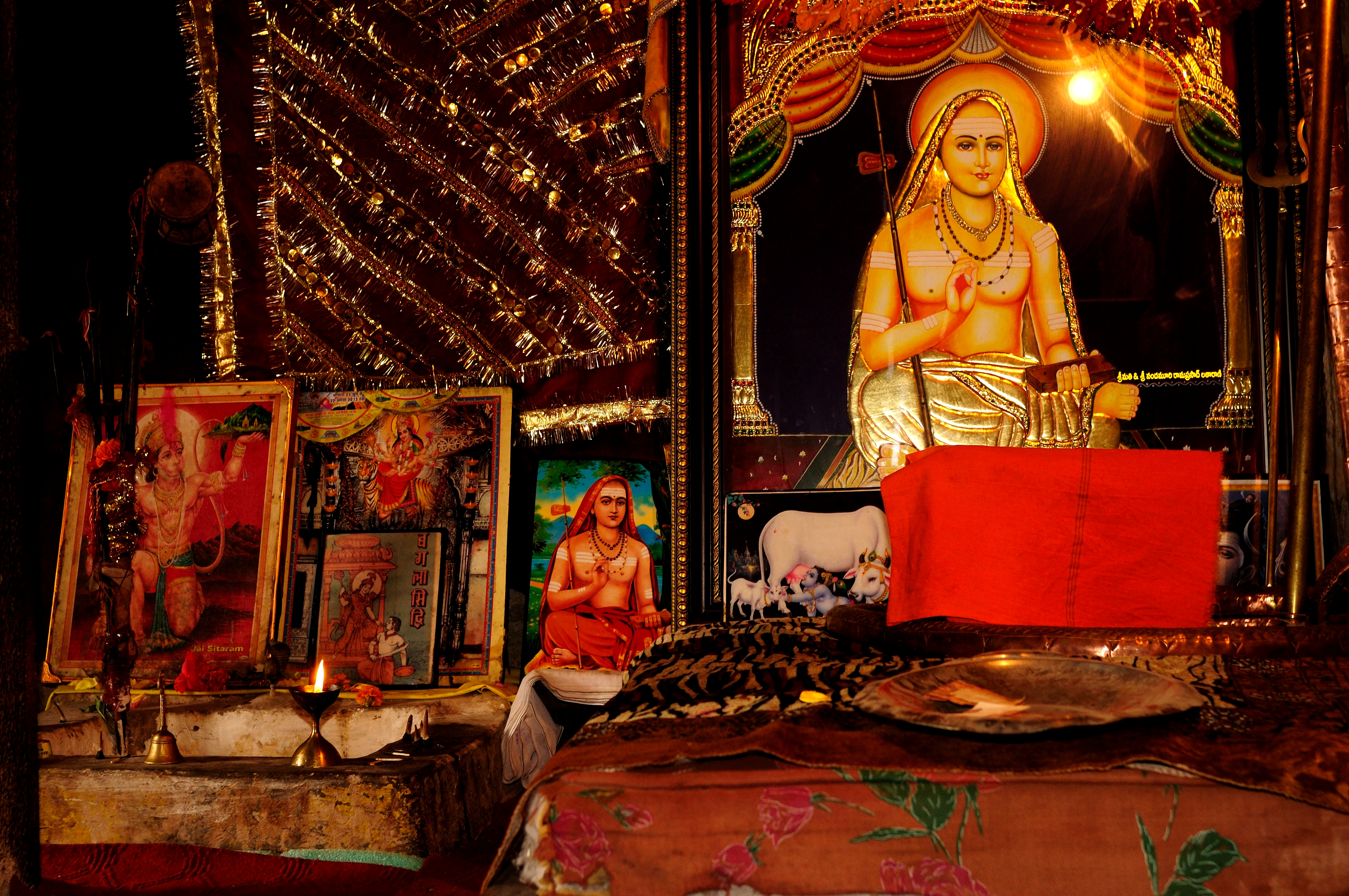 Inside Adi Shankara's Gufa (cave) at Shankaracharya Temple (Srinagar, Jammu and Kashmir), where he sat for his tapasya. Shiva devotees that visit the temple, also pay their respects to the guru here.